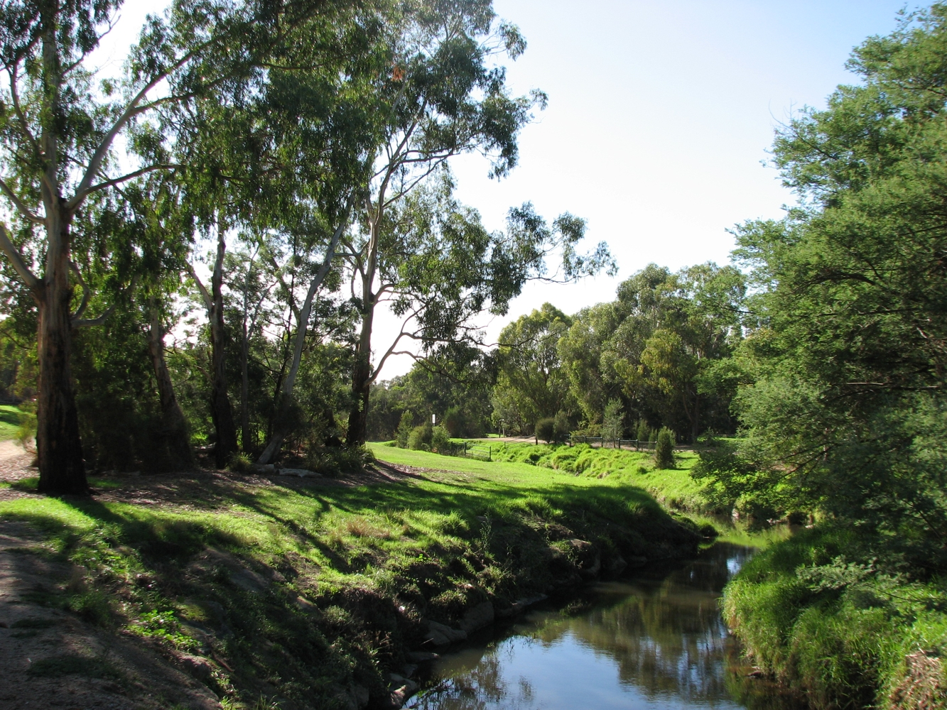 Gardiners Creek Reserve, Box Hill South, Victoria, Australia